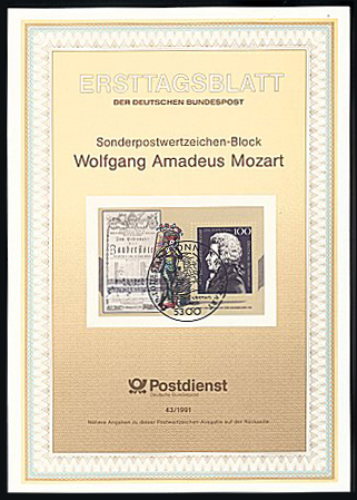 Souvenir sheet of Germany, 1991, 200th anniversary of the birth of Wolfgang Amadeus Mozart.